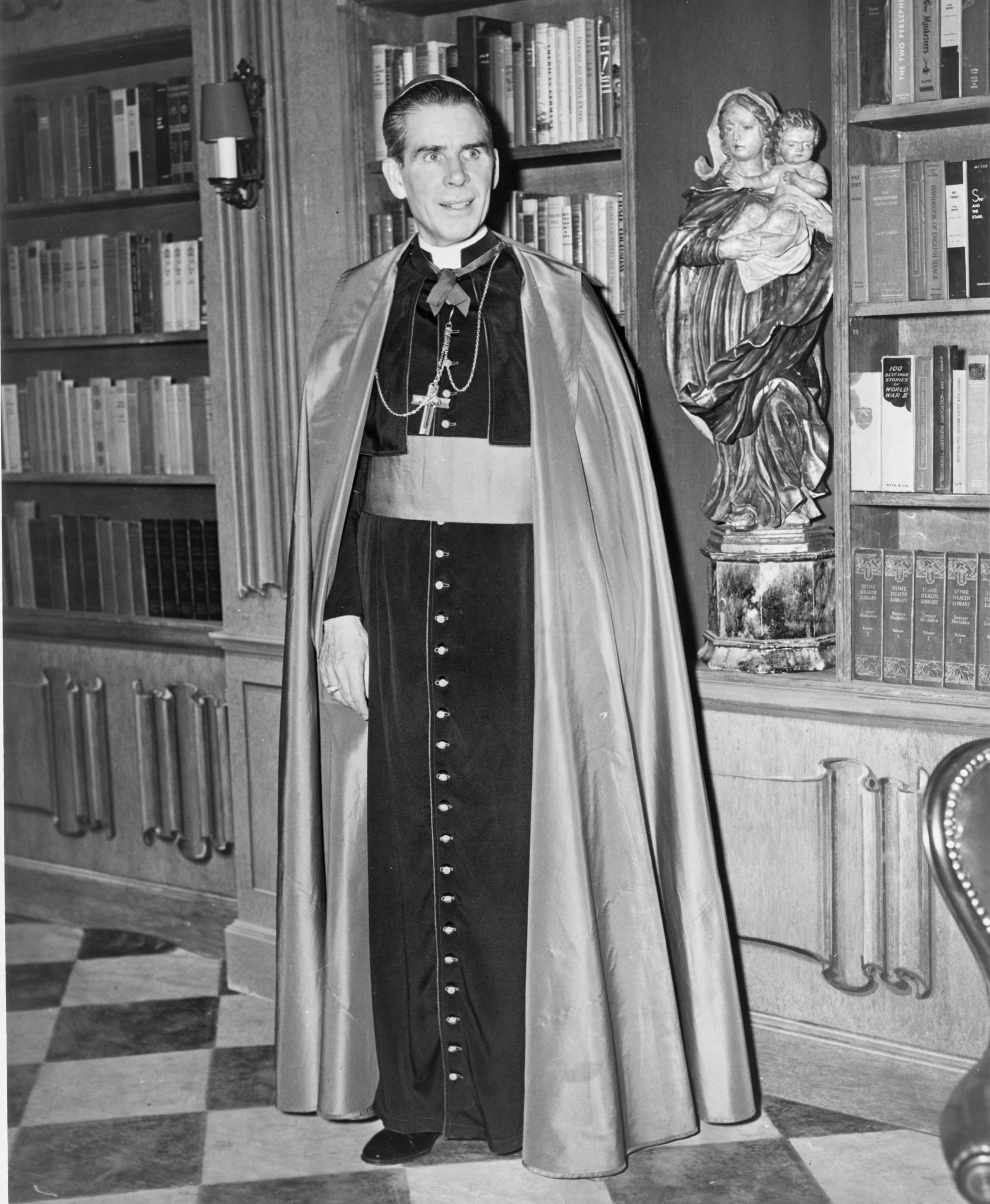 Fulton J. Sheen, Roman Catholic Bishop and early television preacher, on a set for one of his regular television programs